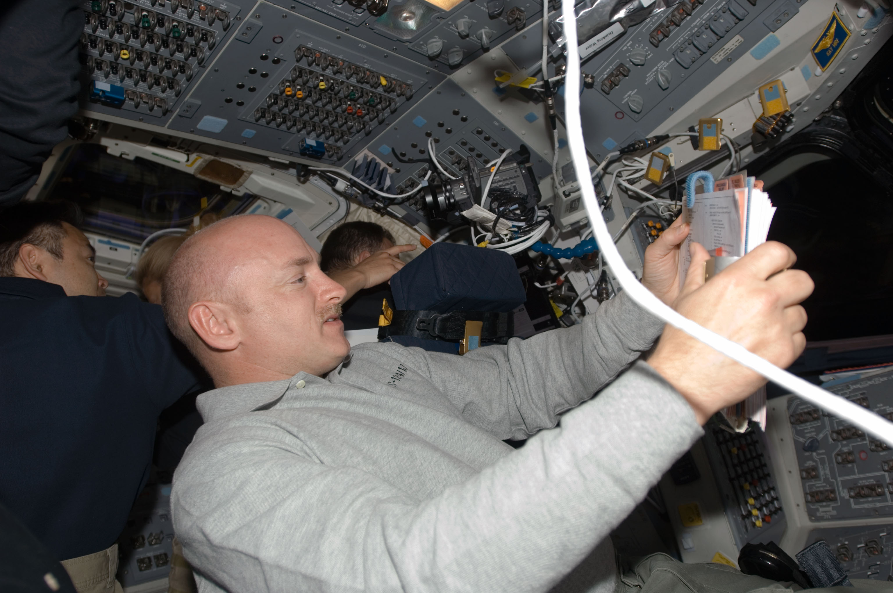 Astronaut Mark Kelly, STS-124 commander, looks over a checklist on the flight deck of Space Shuttle Discovery during flight day 12 activities.